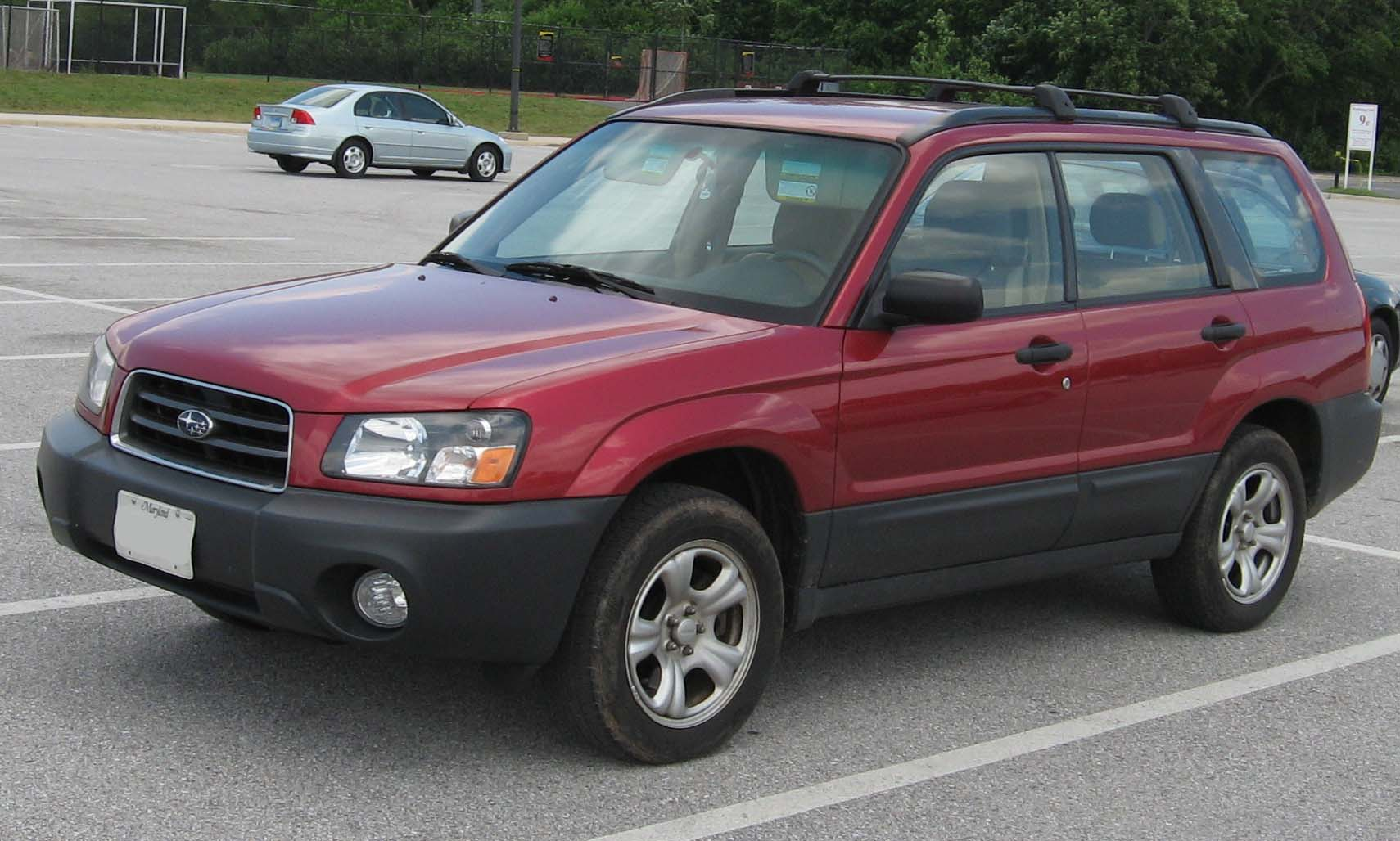 2003-2005 Subaru Forester photographed in USA.